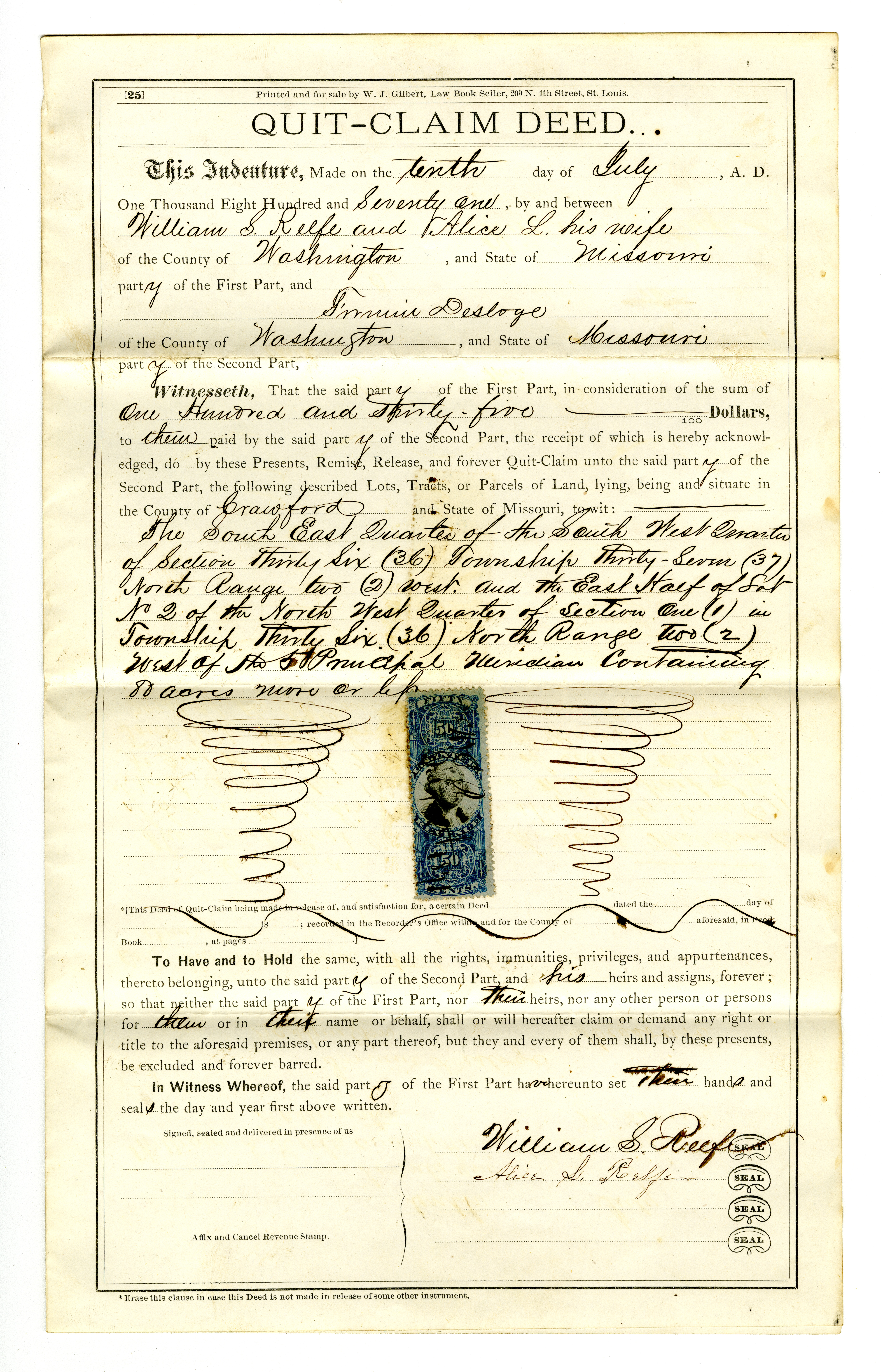 Conveyance of land from William S. Reefe and wife Alice L. Reefe to Firmin Desloge for the sum of $135.00. Property transferred: 80 acres in Crawford County. Title: Quit claim deed signed William S. Reefe and Alice L. Reefe of Washington County, July 10, 1871